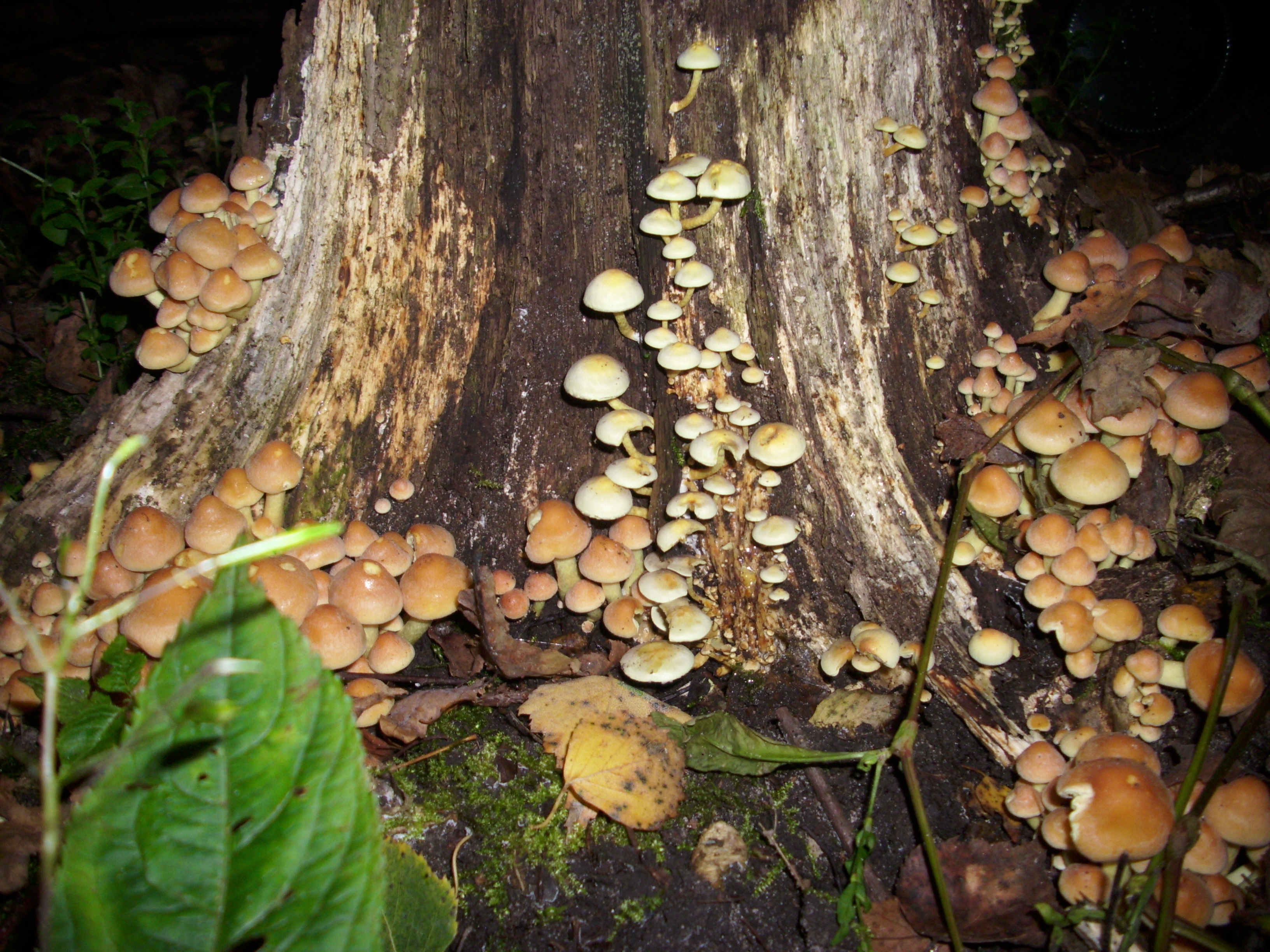 Maślanki w Lesie Bemowskim